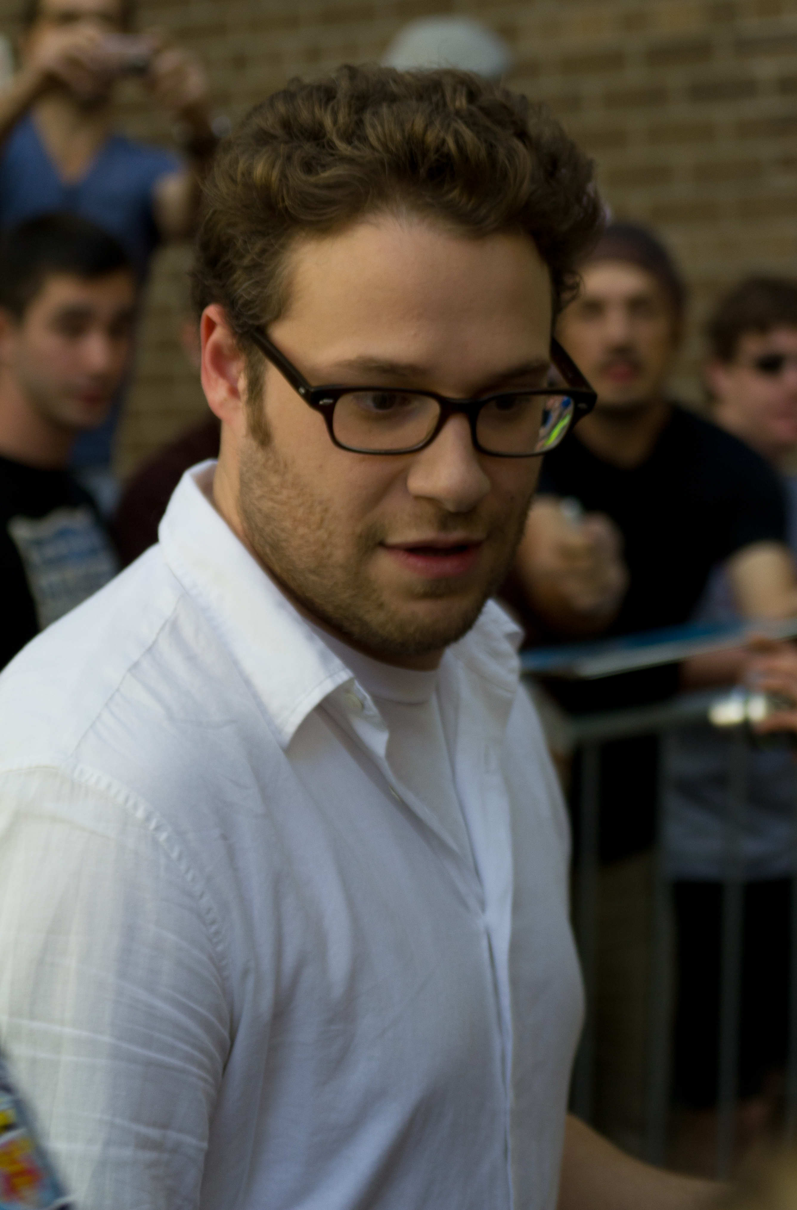 Seth Rogen leaving a screening of "Take This Waltz" at the 2011 Toronto International Film Festival